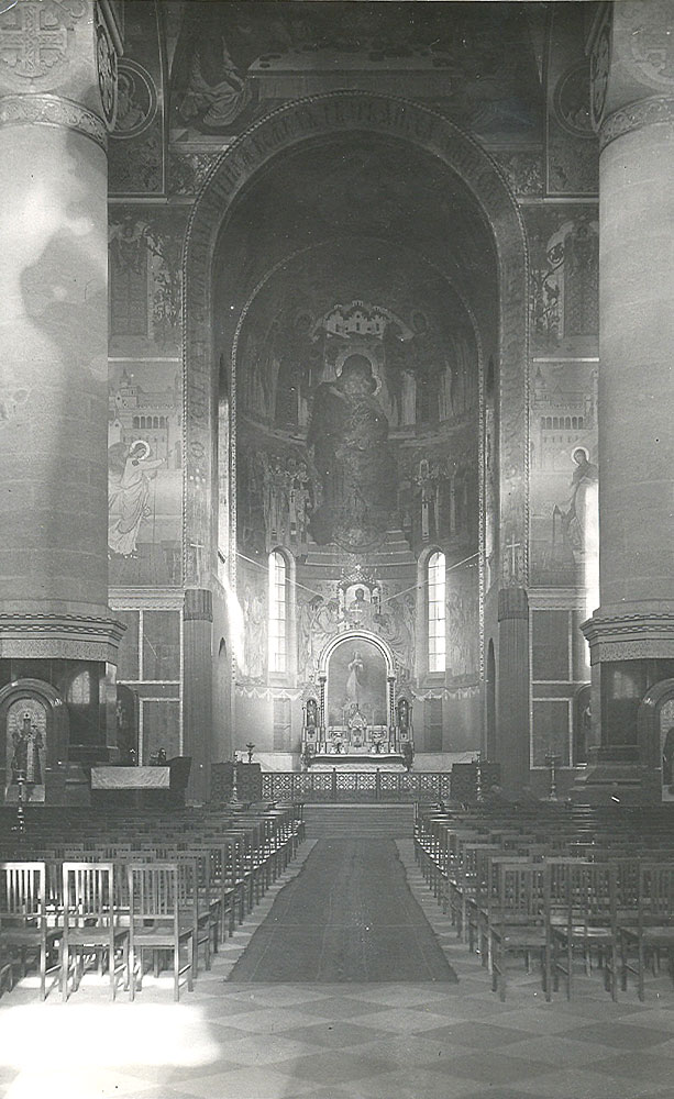 Interior of Aleksander Nevsky Cathedral in Warsaw, Poland, taken in 1915